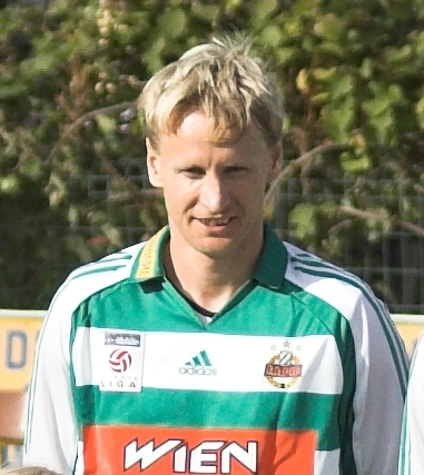 Radek Bejbel, a football player